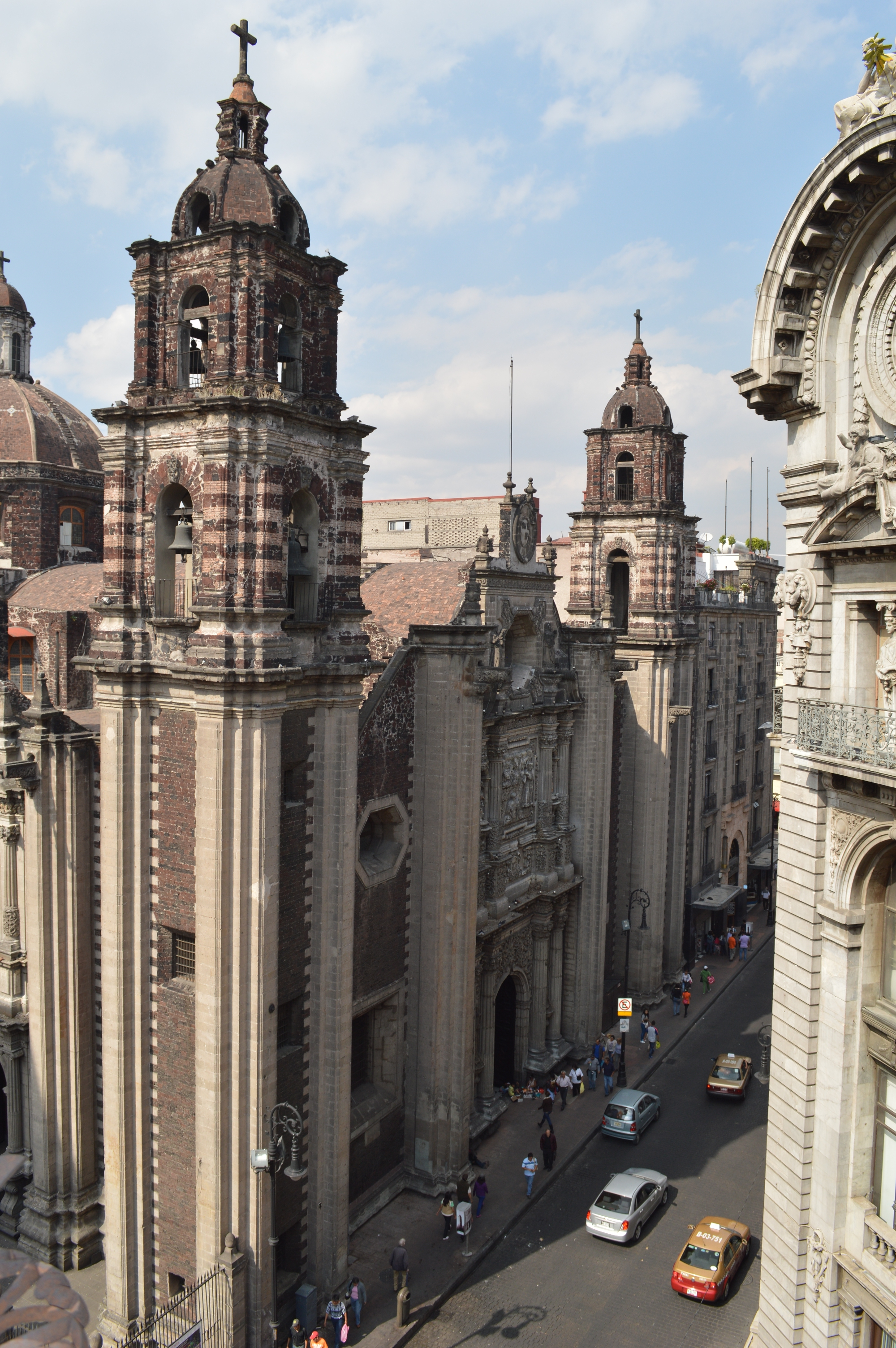 View of the La Profesa Church from the roof terrace of the Museo de Estanquillo in Mexico City